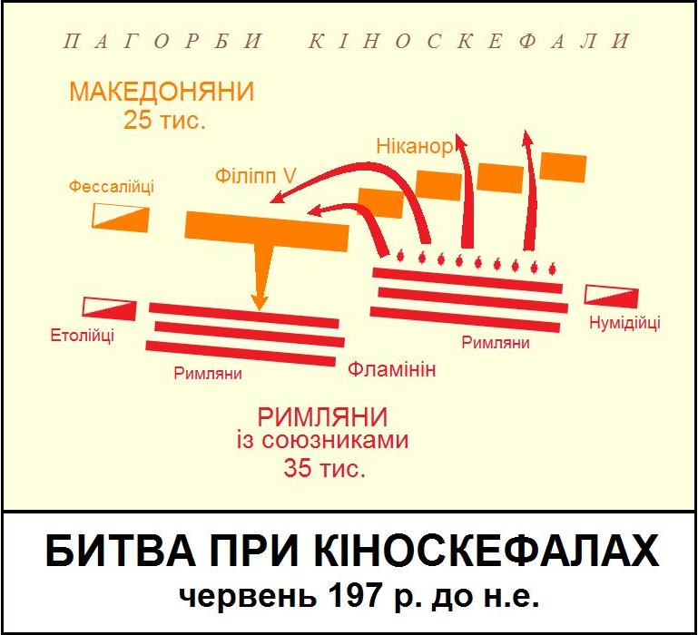 Battle of Cynoscephalae (ukrainian)